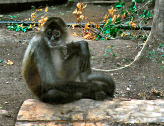 Black-handed Spider Monkey (Ateles geoffroyi).